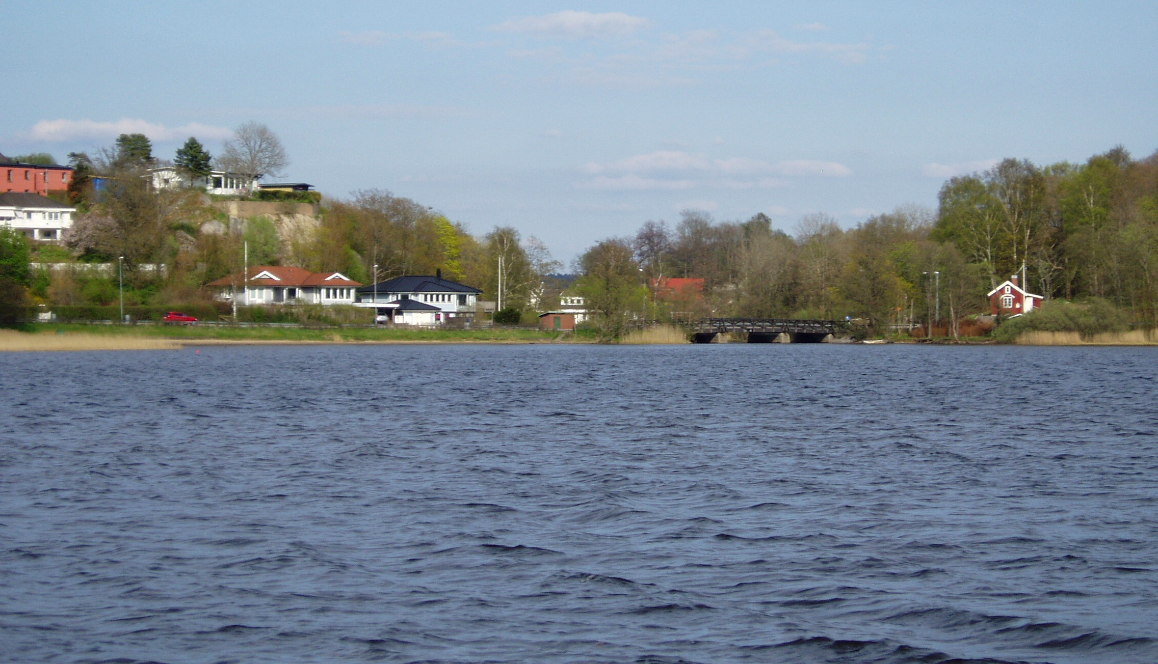 Lake Stensjön, Mölndal municipality, Sweden